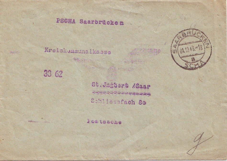 Letter from the Postscheckamt in Saarbrücken (the German equivalent to an office of the Girobank) to St. Ingbert (Saarland), 1 December 1943. Sent free from postage.